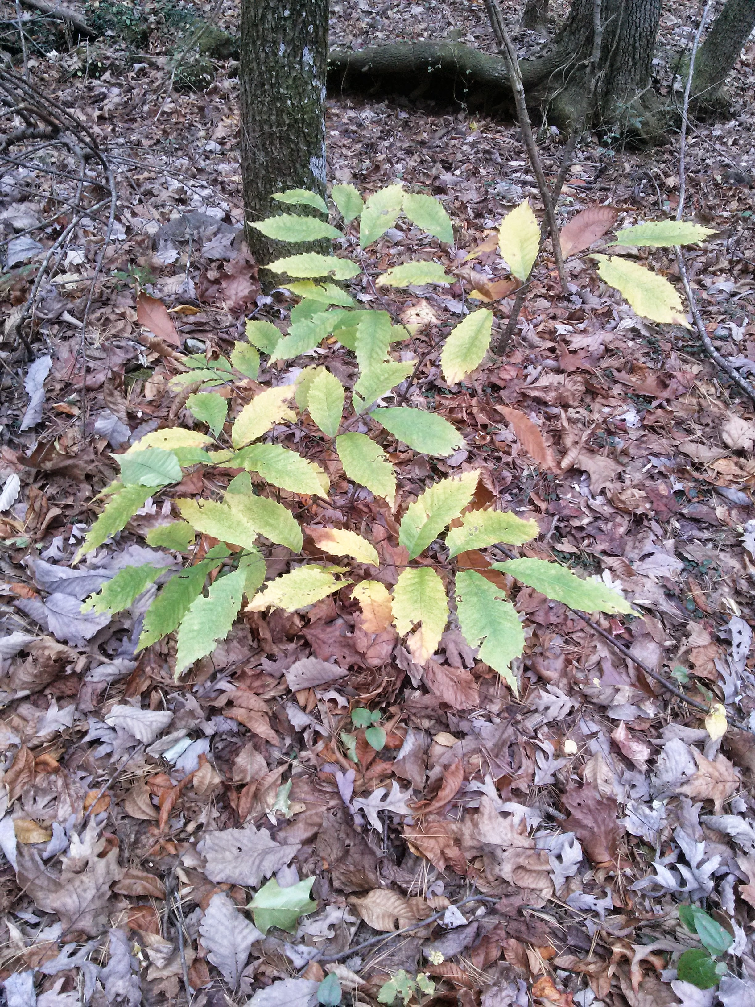 Shoot of American Chestnut, November 2015, Fall foliage, Lumpkin Co. GA